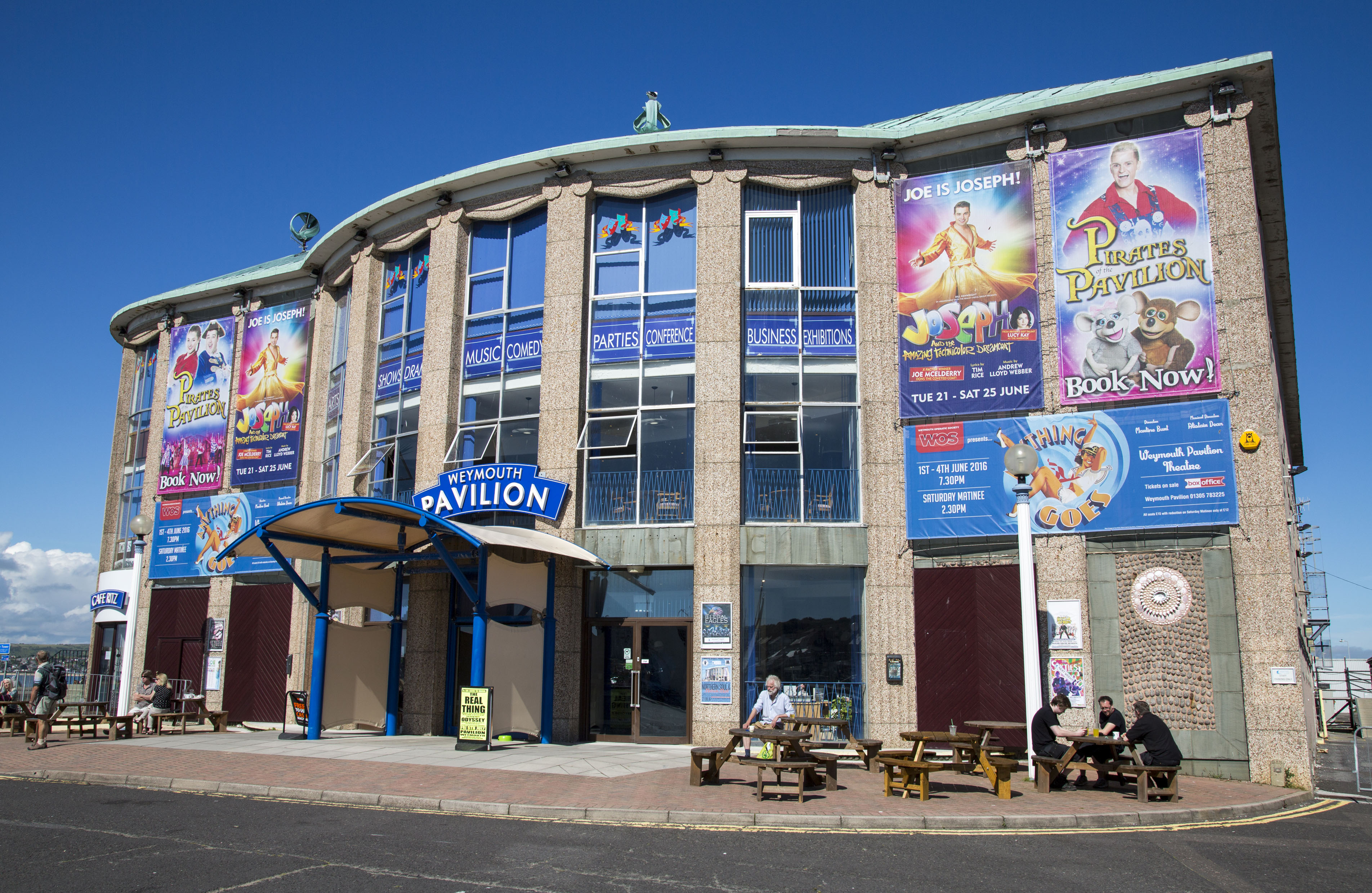 The front face of Weymouth Pavilion theatre, July 2016